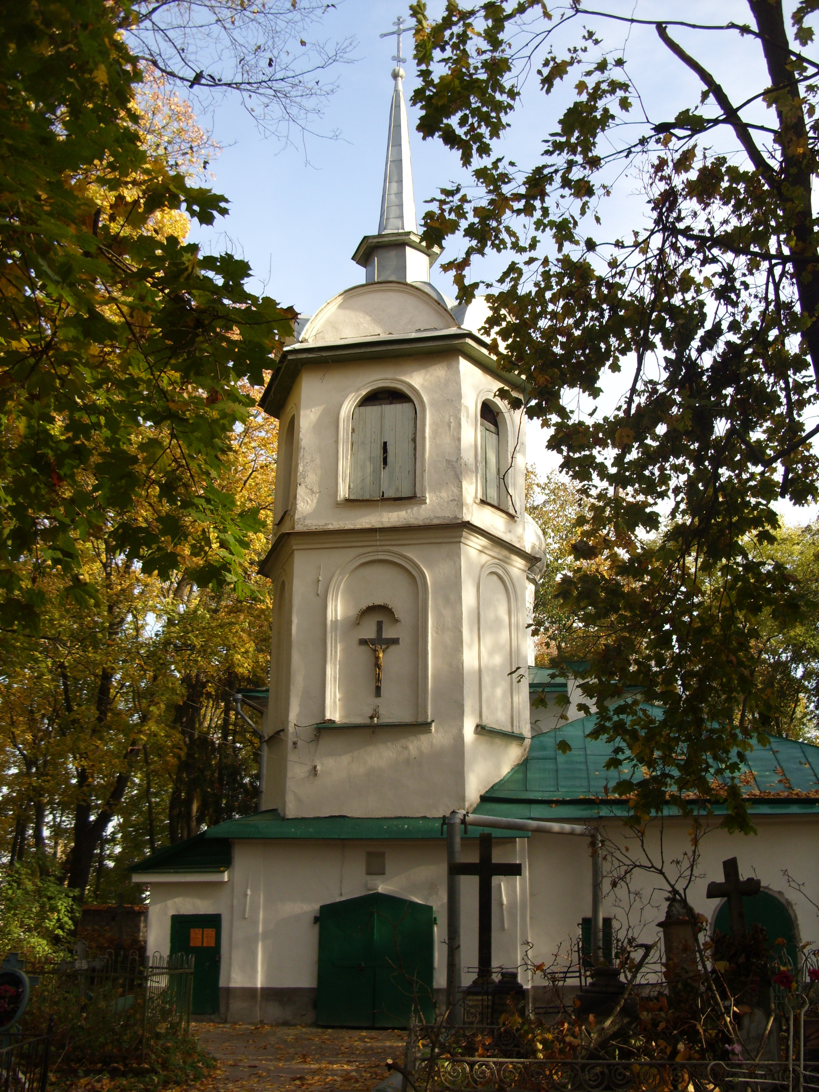 Pskov Dimitrija s Polja Kolokolnja